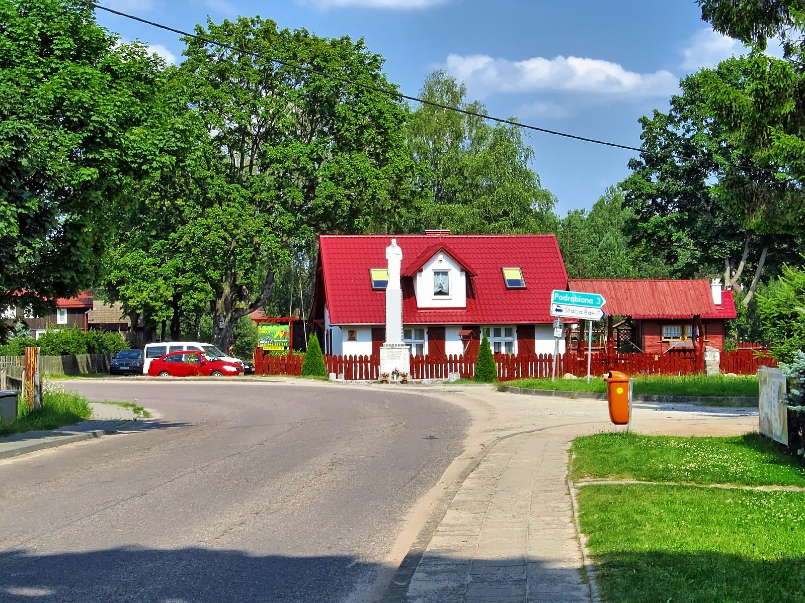 Village center Borsk